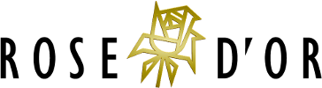 rose dor